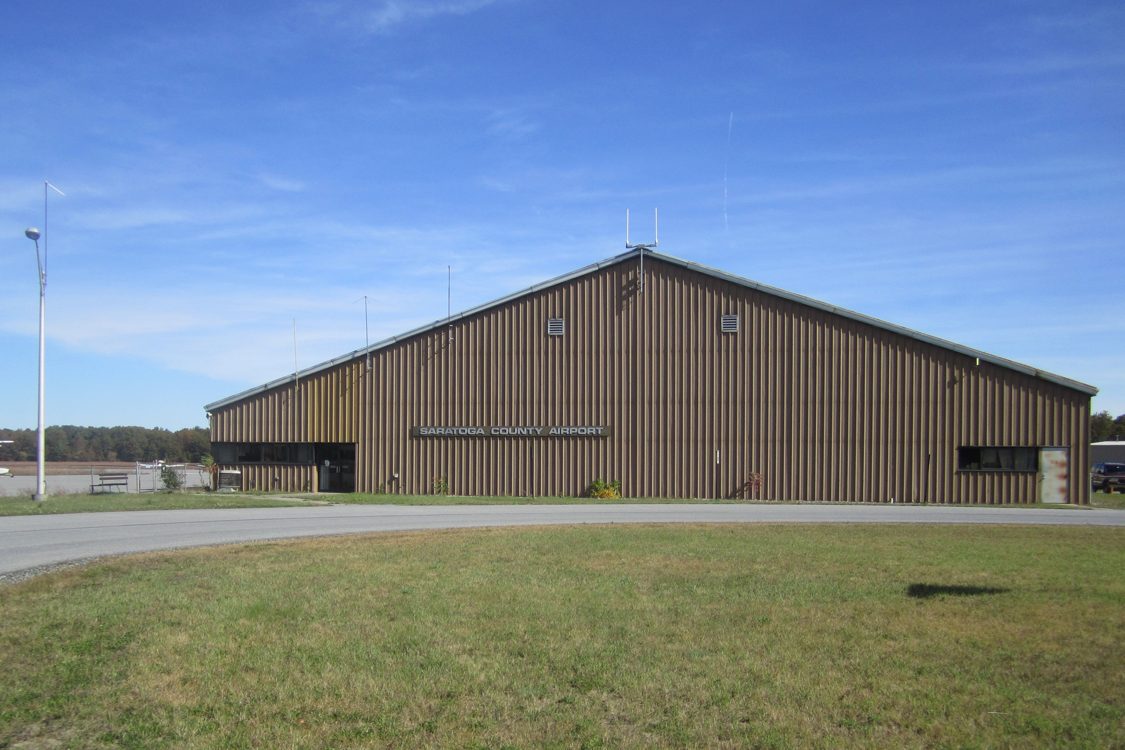 Saratoga Country Airport, Milton NY (5B2)